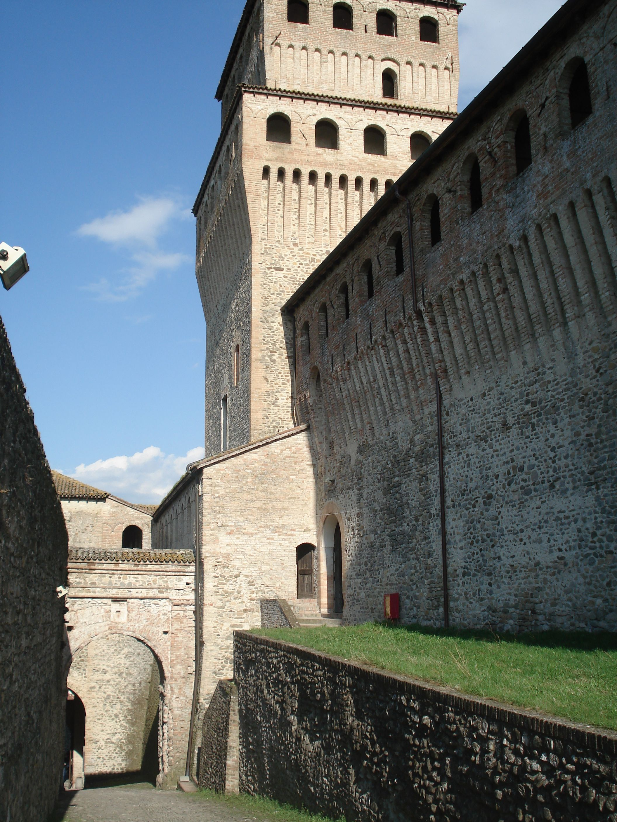 Torrechiara Castle This is a photo of a monument which is part of cultural heritage of Italy.